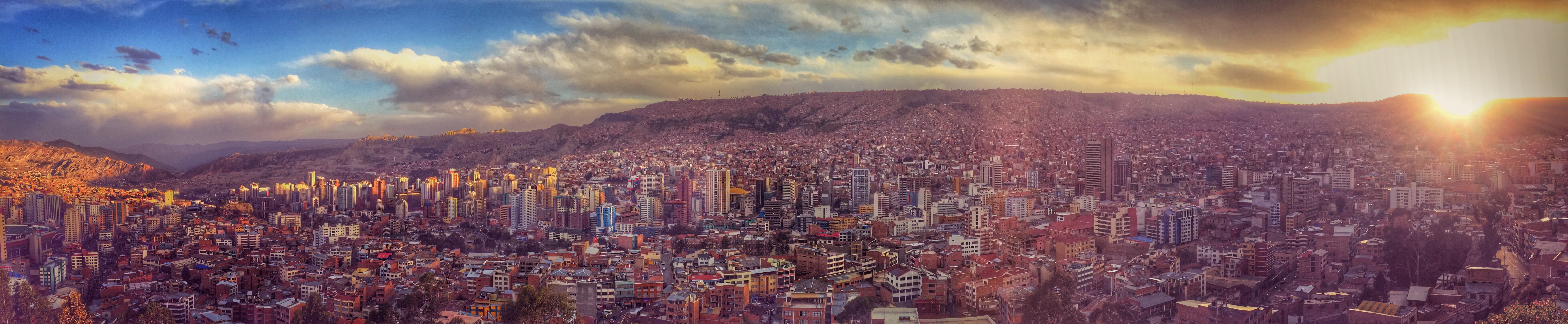 La Paz, as seen from the "Killi Killi" lookout.